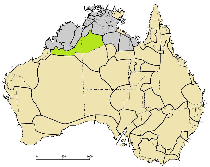 Ngumpin languages (green) among other Pama–Nyungan (tan)